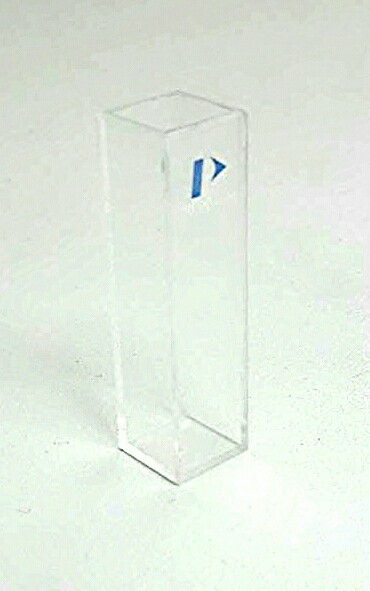 one type of cuvette